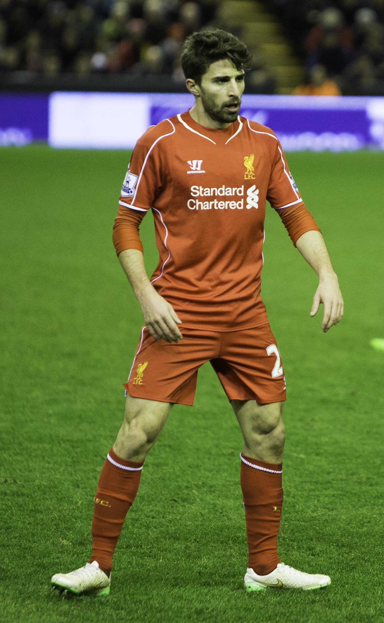 Fabio Borini playing for Liverpool F.C. in a Premier League match against Arsenal at Anfield on 21 December 2014.